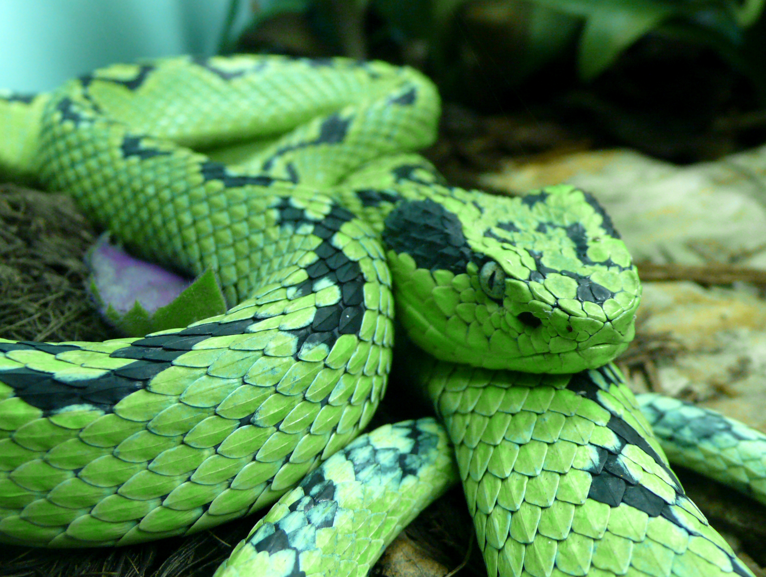 Yellow-blotched palm-pitviper (Bothriechis aurifer)